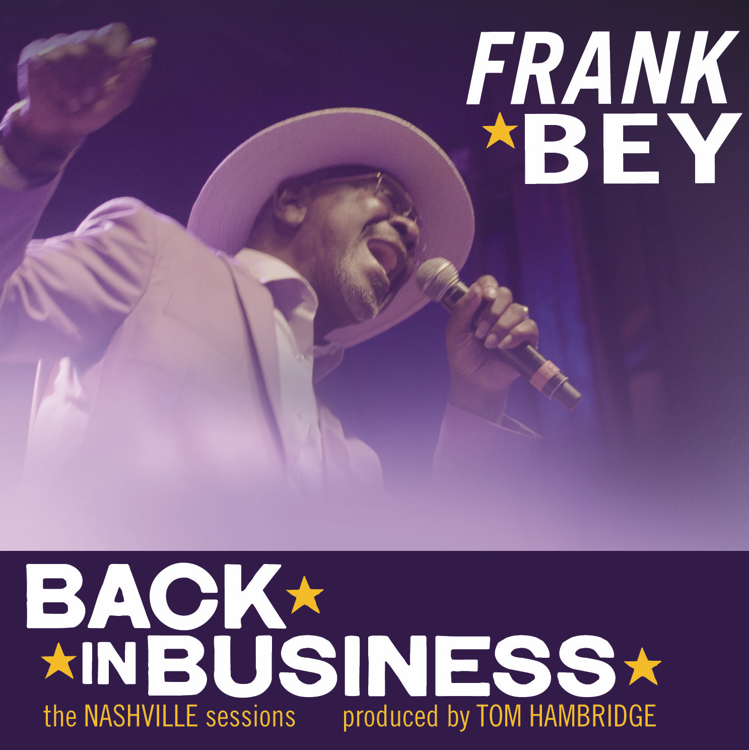 Frank Bey's CD on Nola Blue Records, "Back In Business". Released September 21, 2018.